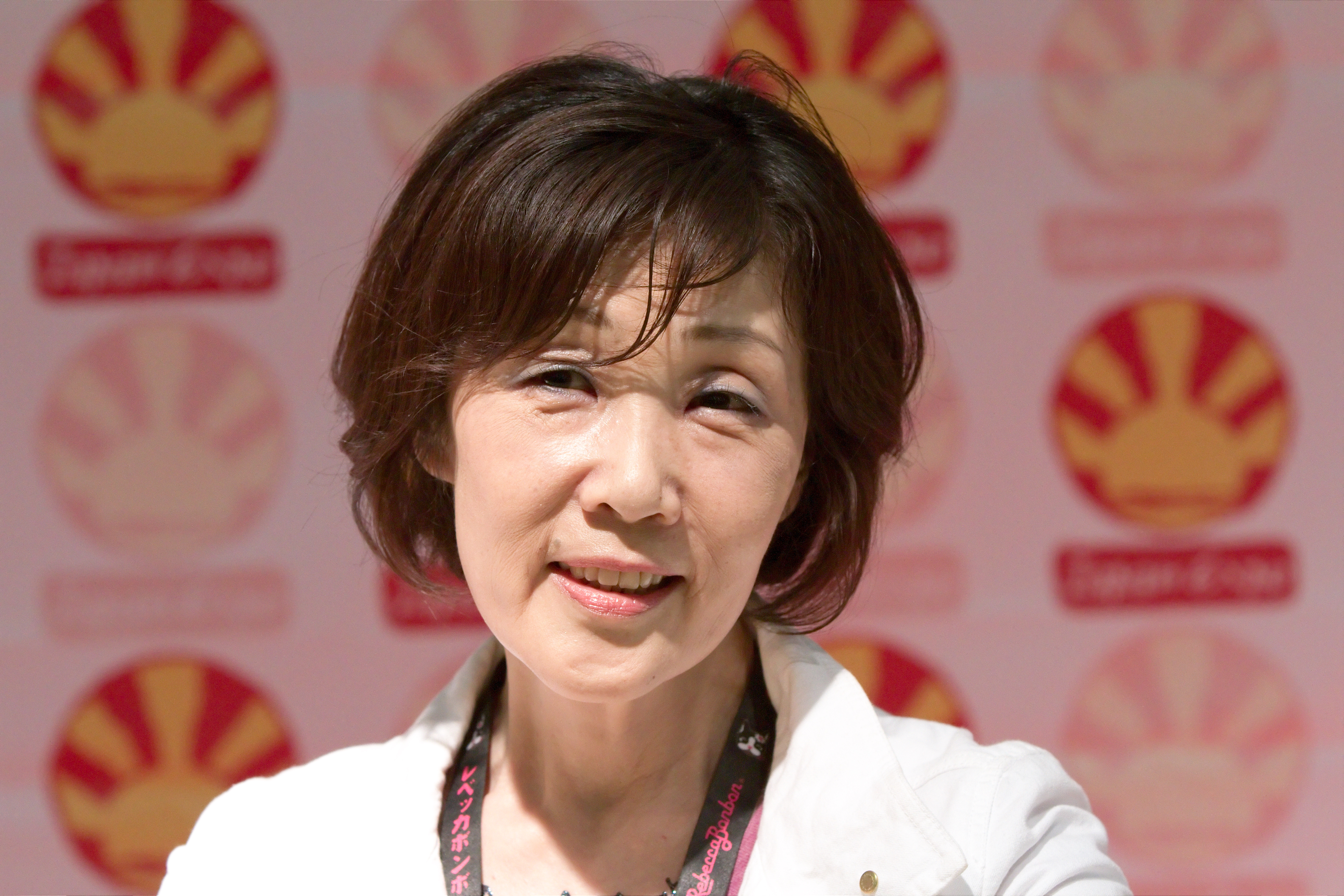 Autograph session with Yuko Shimizu at Japan Expo 2010 (Paris, France)